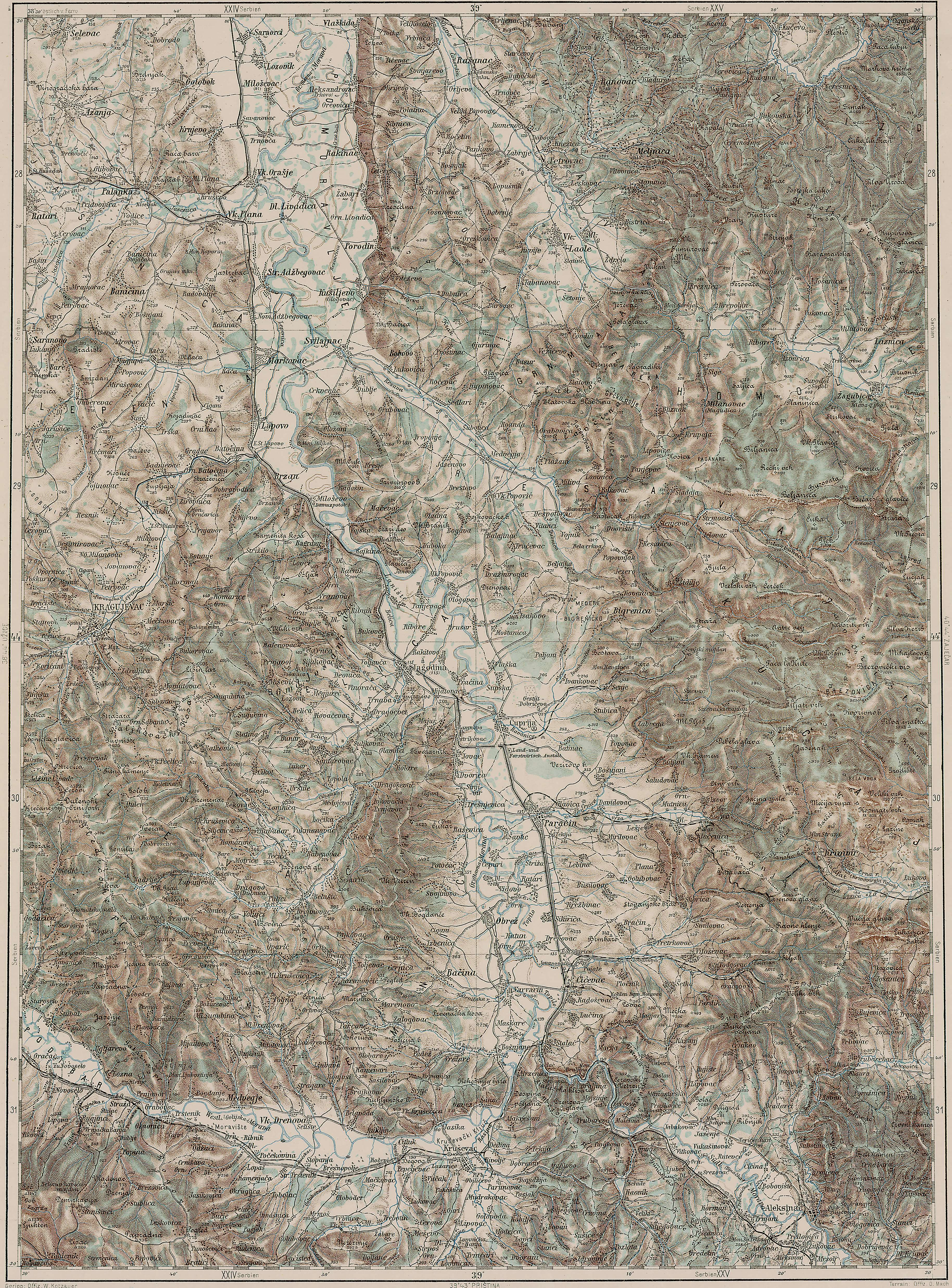 3rd Military Mapping Survey of Austria-Hungary - Kragujevac